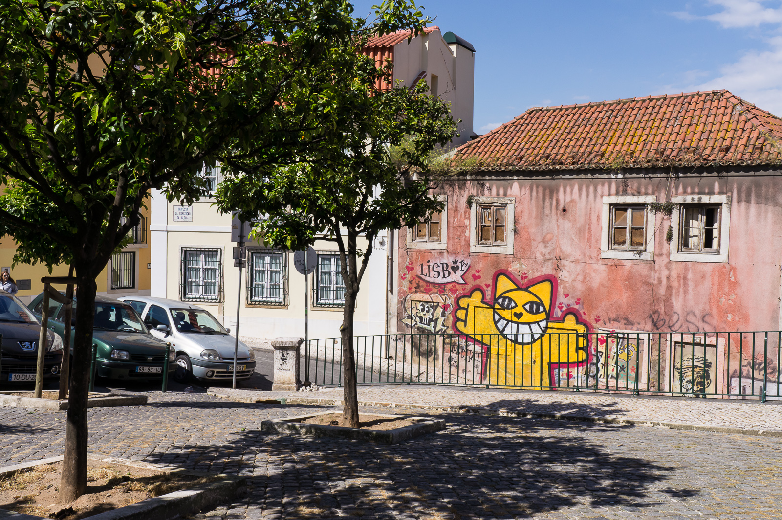 M. Chat Lisboa